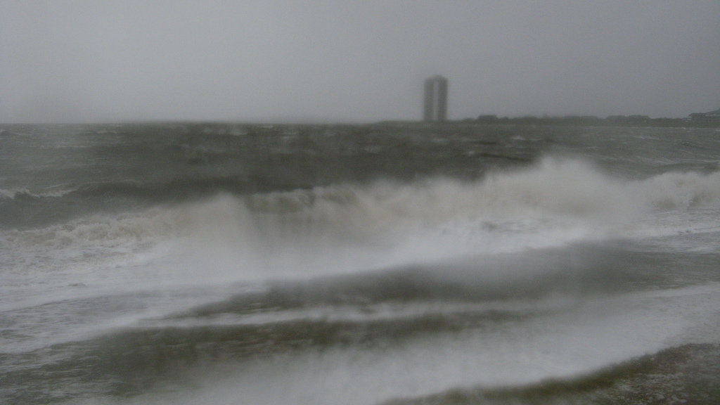 2008 Storm Emma on North Sea seaside near Büsum, Germany